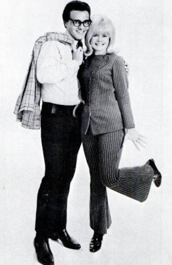 Trade ad for Jon & Robin's single "Do It Again - A Little Slower". To better adapt it to his respective Wikipedia article, the ad was cropped and cleaned in a graphics editing program. The original can be viewed at the source below.